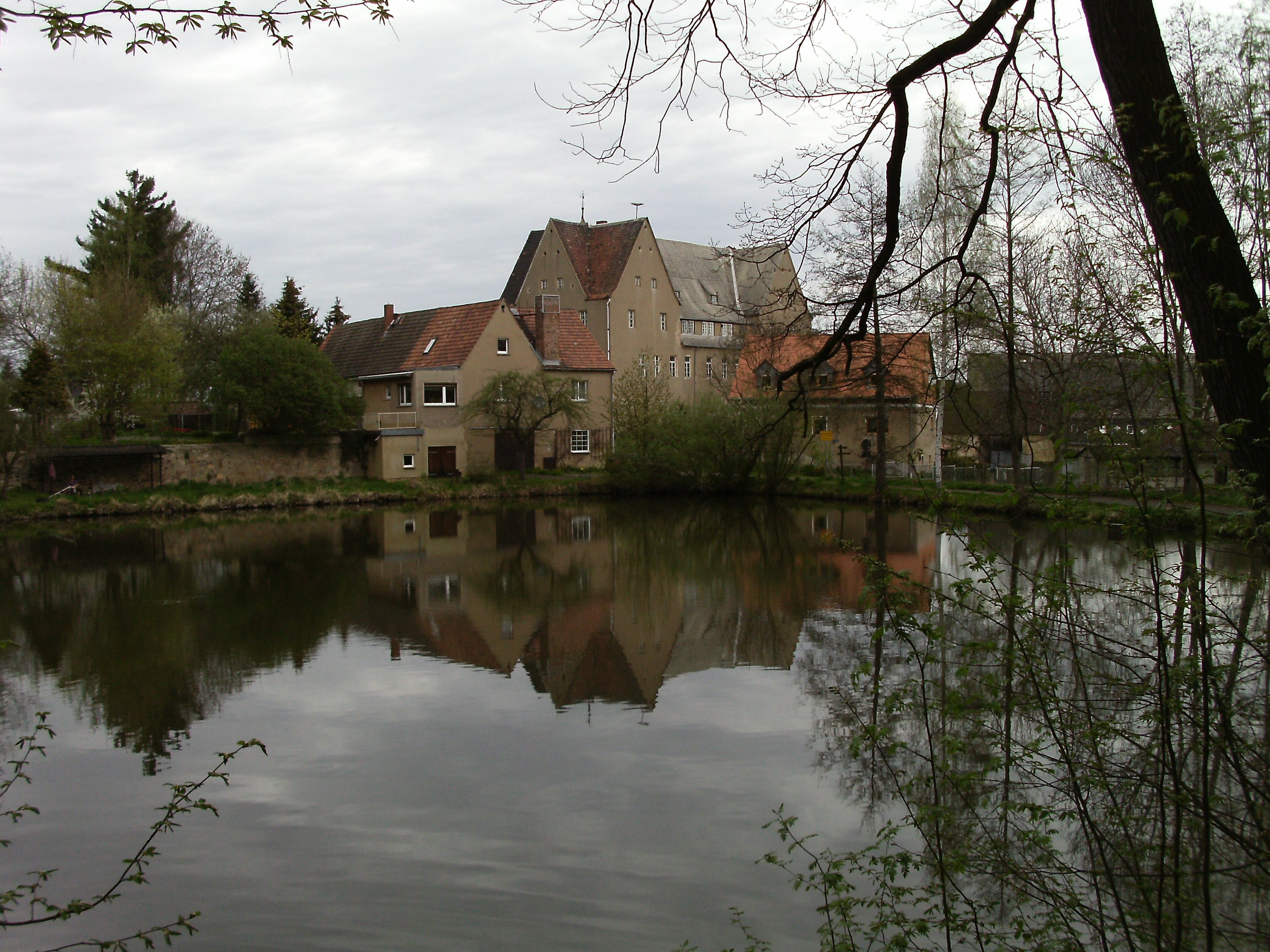 Pond with Wolftitz Castle in Streitwald (Frohburg, Leipzig district, Saxony)